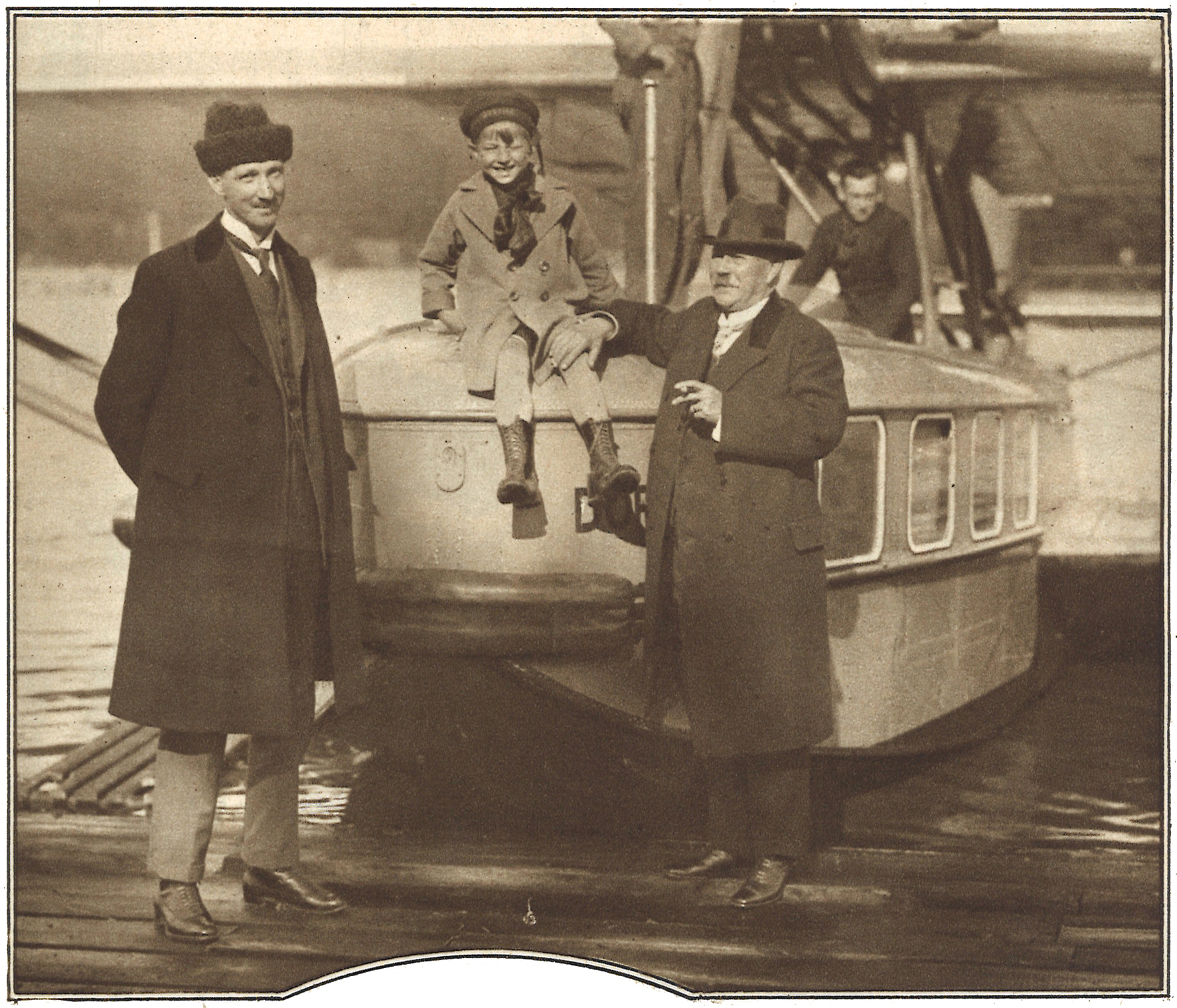 To the right: Fredrik Berglund (1858-1939), Swedish railway worker and member of parliament. Seen here with his son and grandson after arriving in Stockholm with a flight from Danzig (Gdansk).